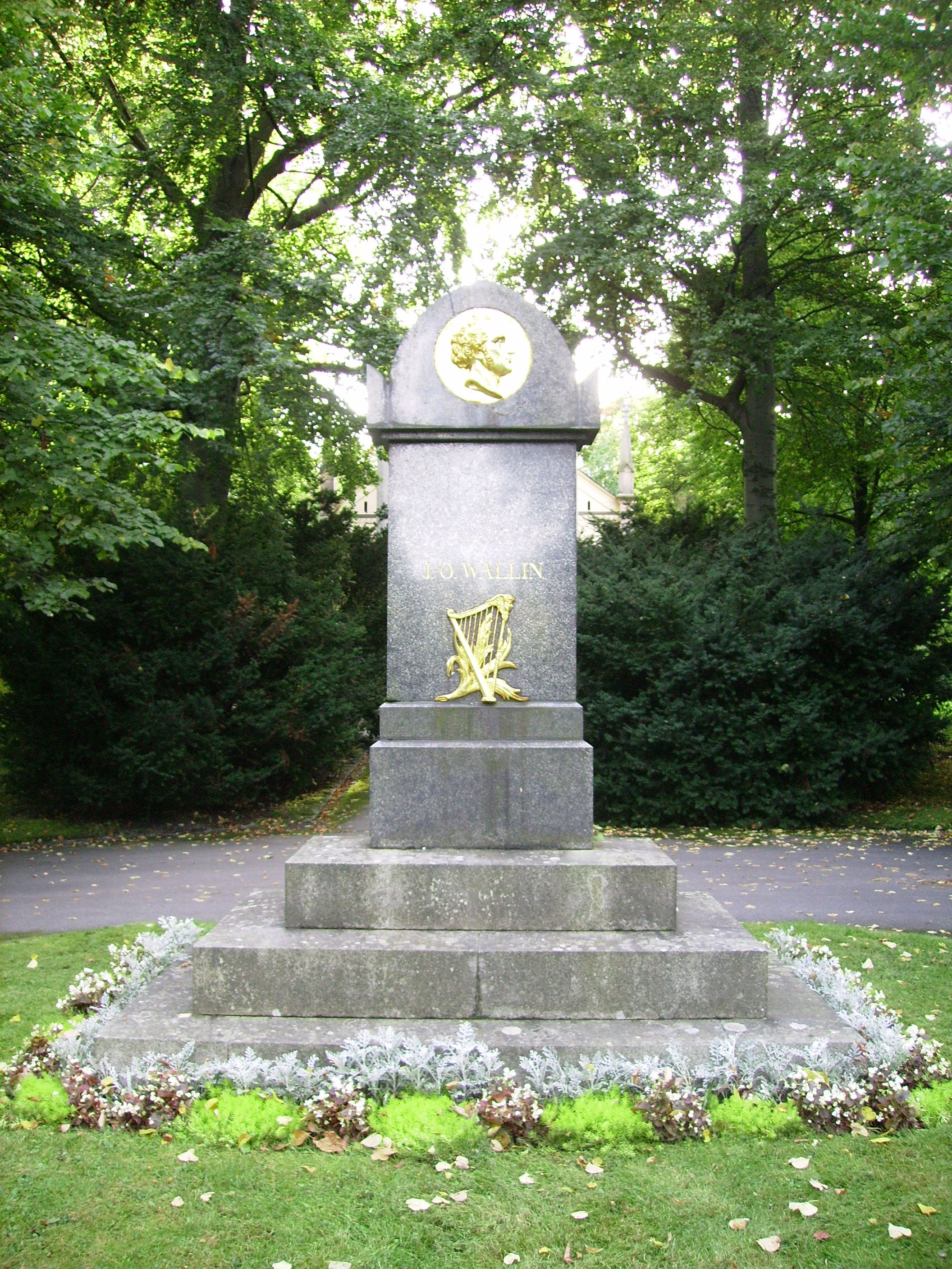 Picture of J.O. Wallin's grave at Norra begravningsplatsen i Solna